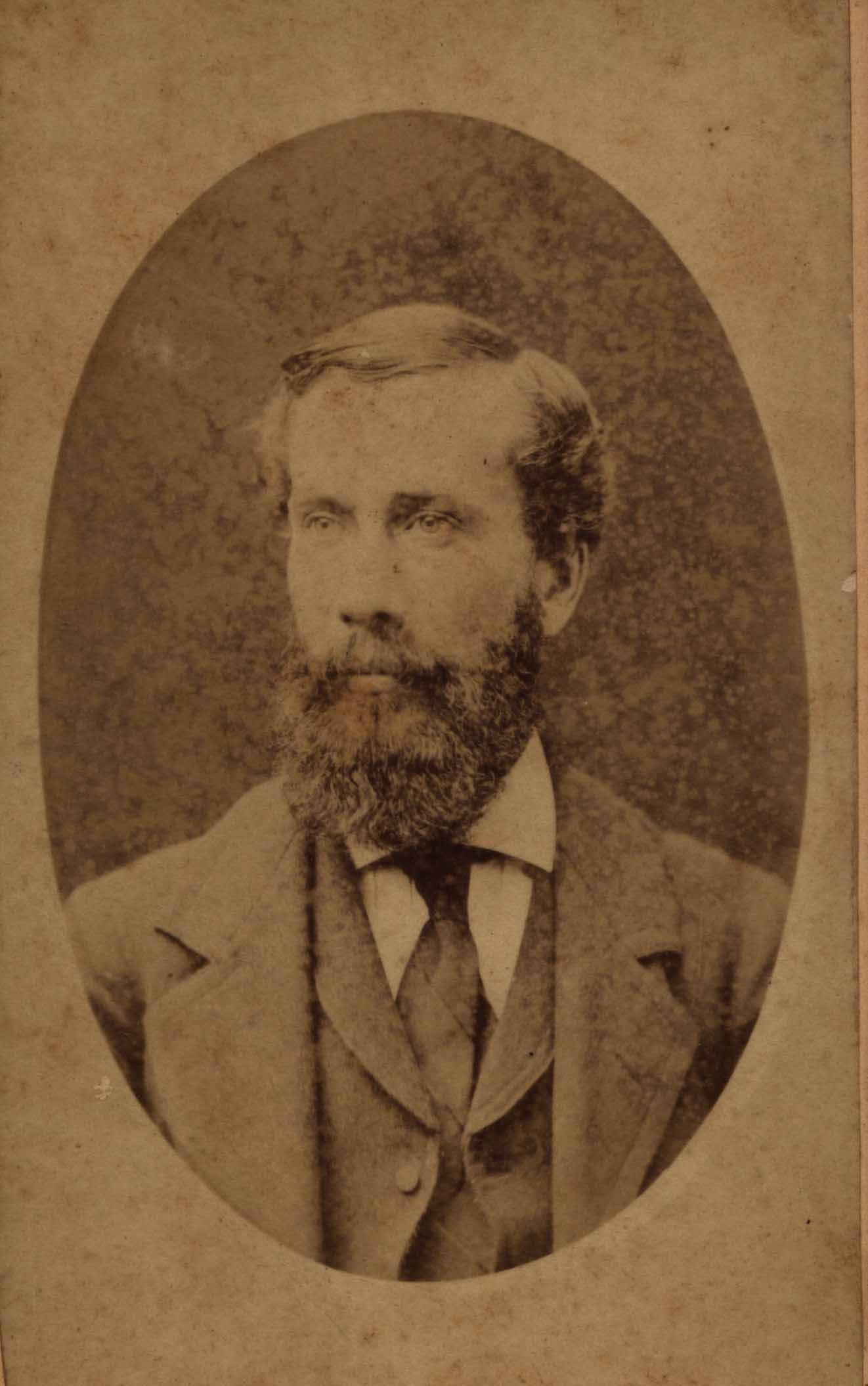 Joseph Ballard Atherton.